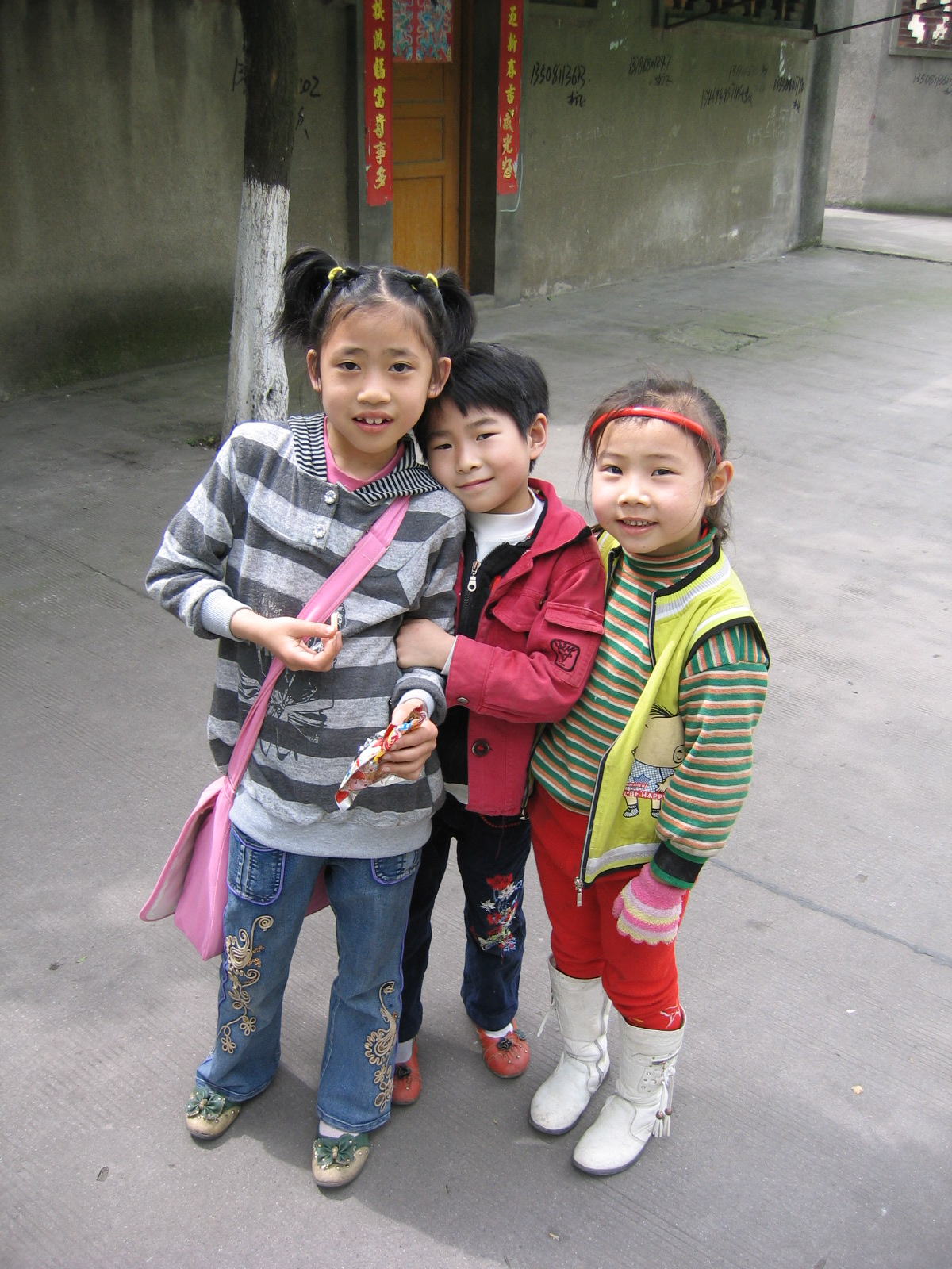 Anxian, Sichuan, China before the May 12 earthquake. School girls on a Sunday afternoon walk by the Anchang River, offering cookies to a foreigner.